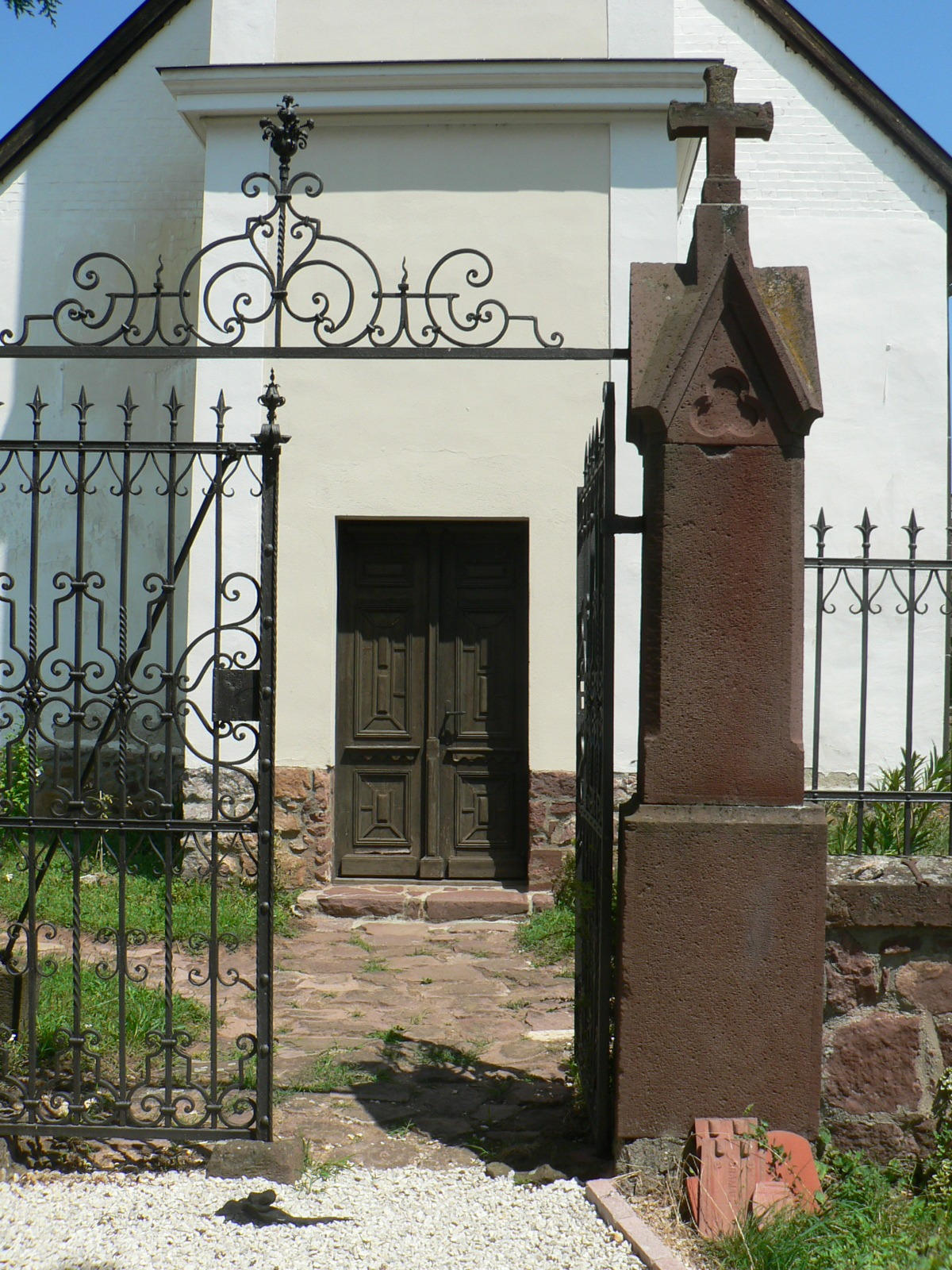 Lovas - a katolikus templom bejárata